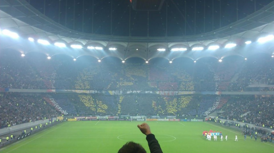 Steaua Bucuresti v. Dinamo Bucuresti (49,112 spectators)